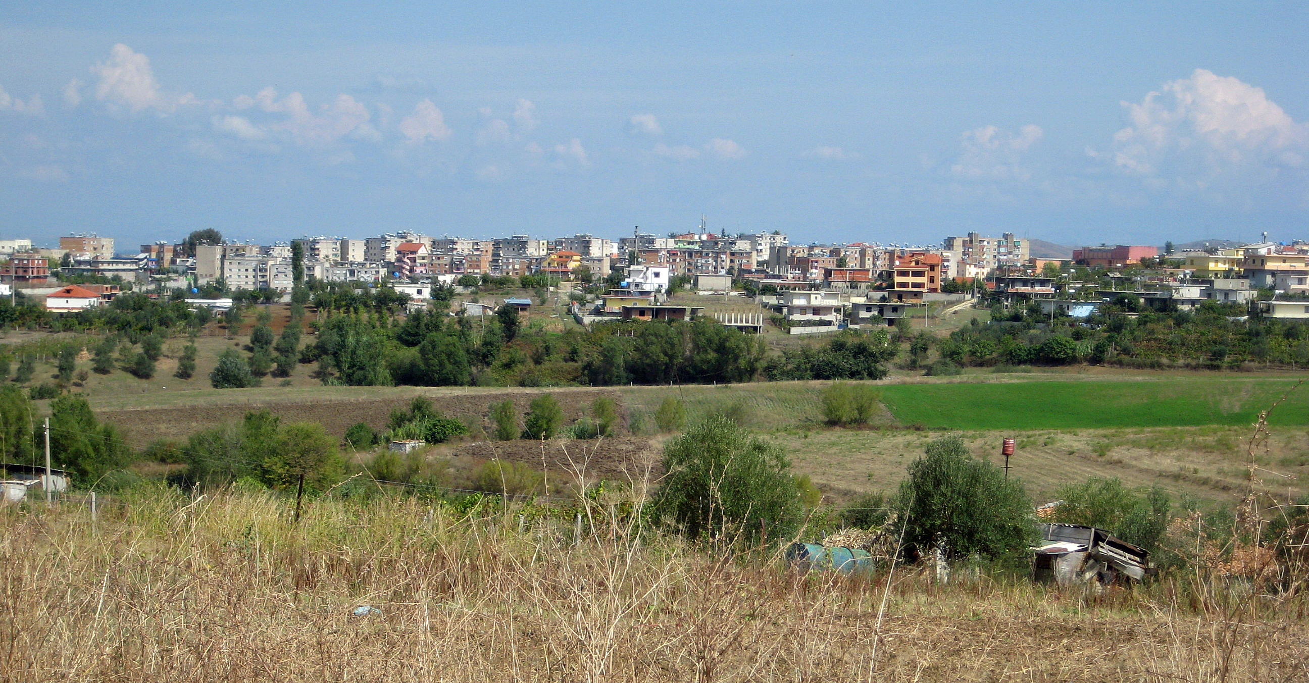 City of Patos, Albania